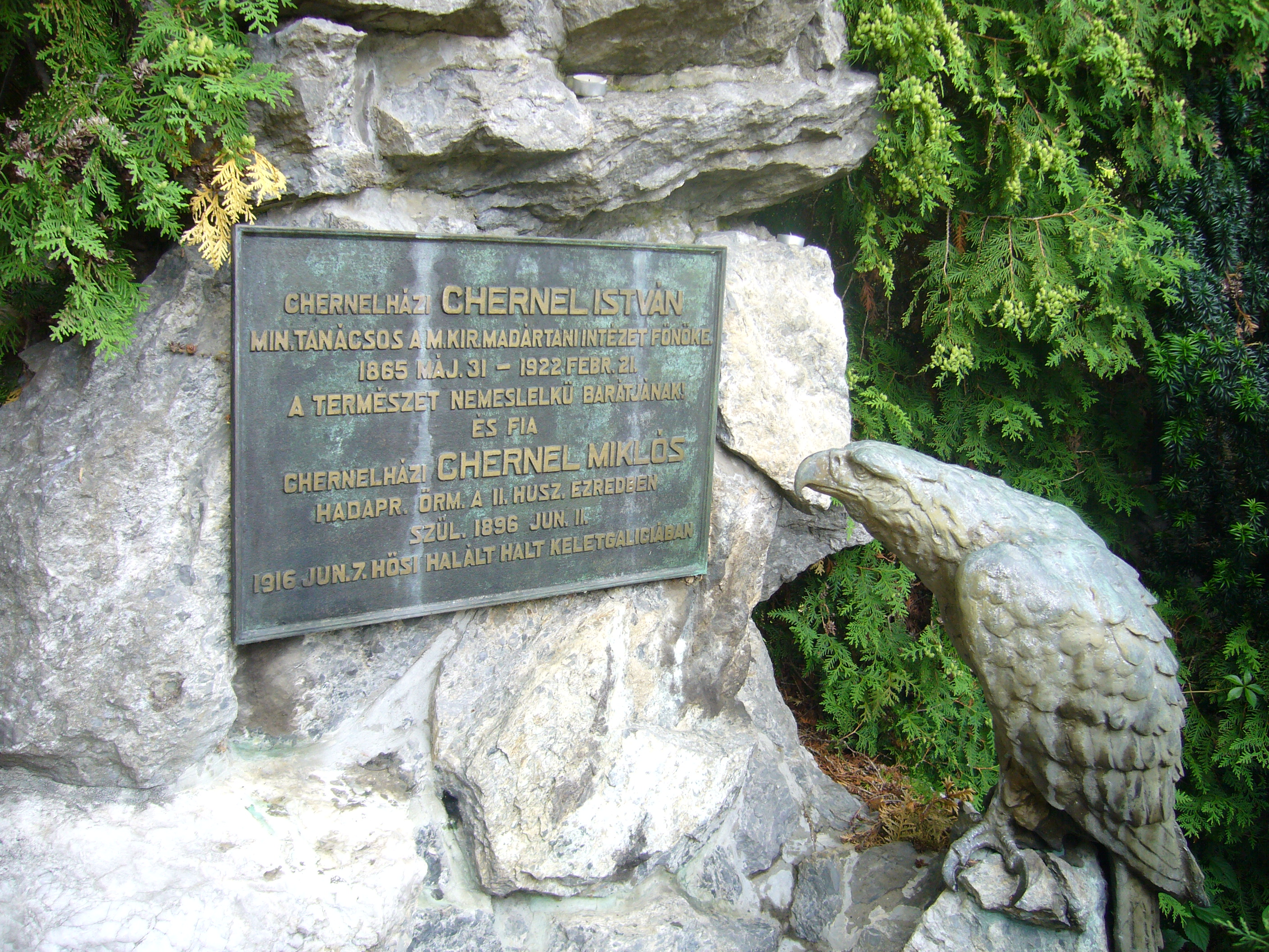 Tomb of István Chernel in Kőszeg